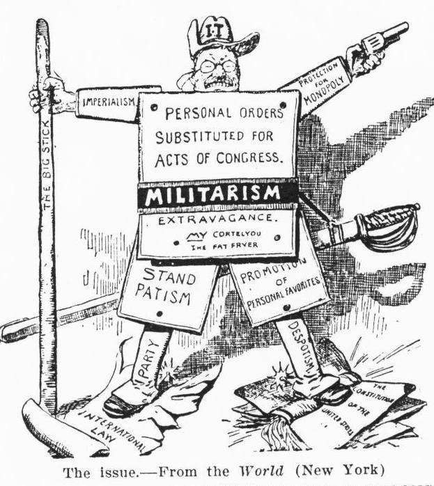 1904 editorial cartoon from New York World caricaturing U.S. President Theodore Roosevelt.